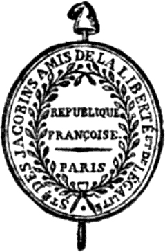 Seal affixed by the Jacobins of Paris atop their manuscripts and publications during the republican period.